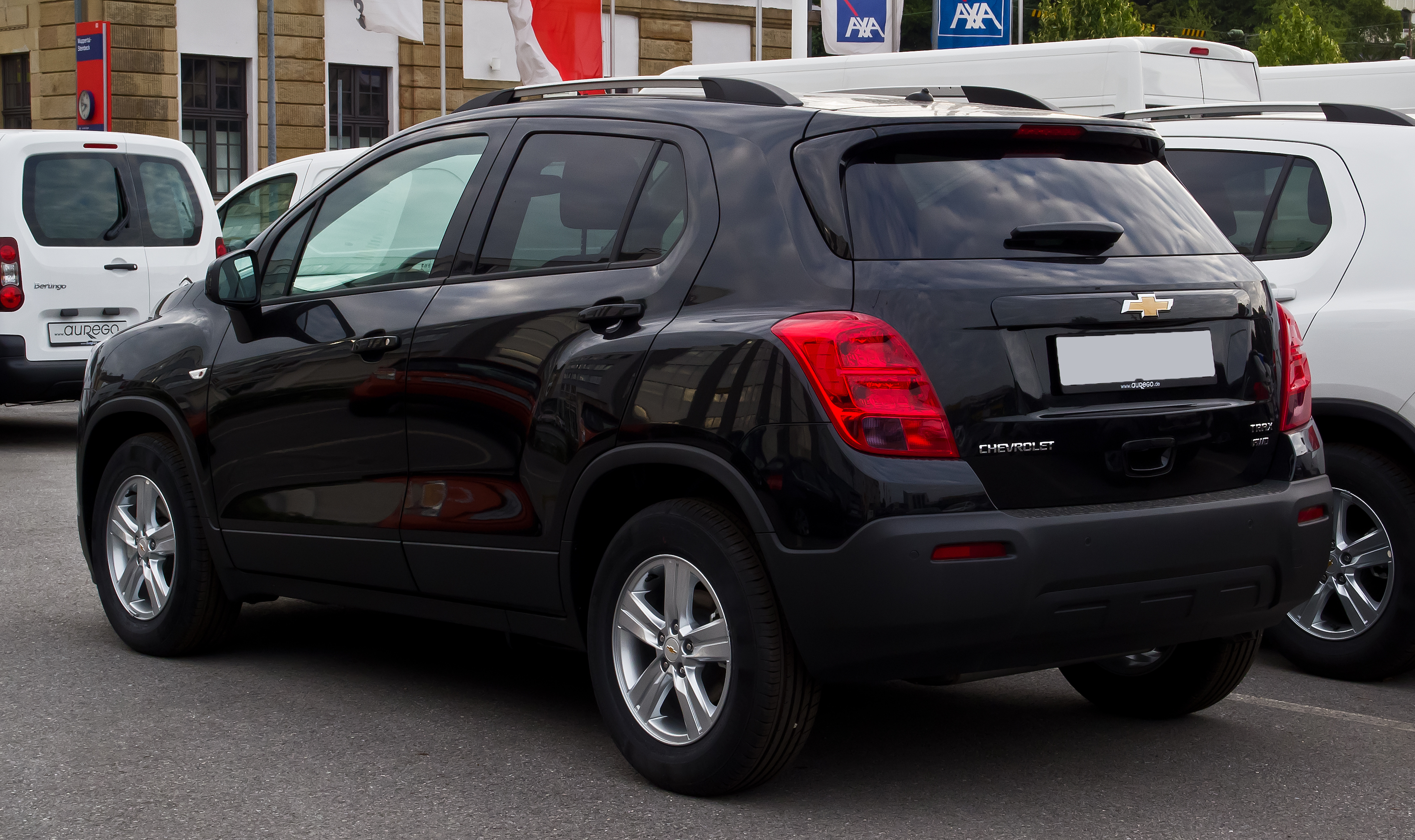 Chevrolet Trax LS+ 1.4 4WD